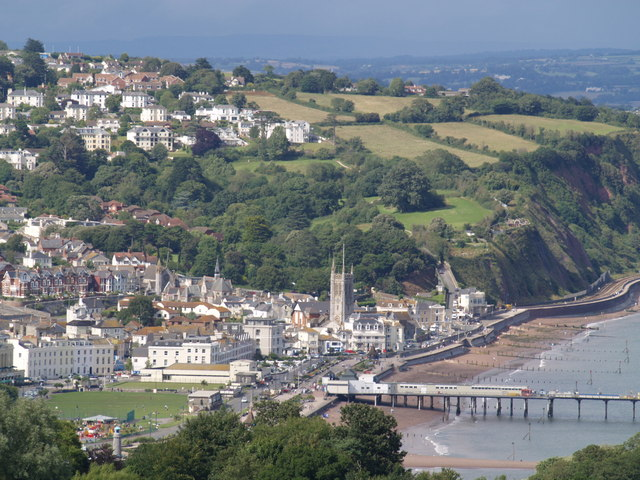 Teignmouth from the coast path